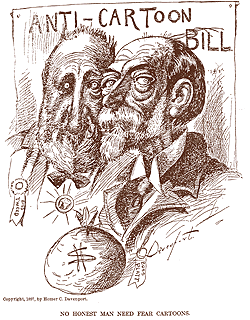 Political cartoon by Homer Davenport. "No Honest Man Need Fear Cartoons." Behind the figure of Senator Platt is the visage of Boss Tweed, one of the principals from an earlier generation of political corruption, who was in part brought down by Davenport's inspiration, Thomas Nast, who had attacked the Tammany Hall political machine that controlled New York City’s municipal government.